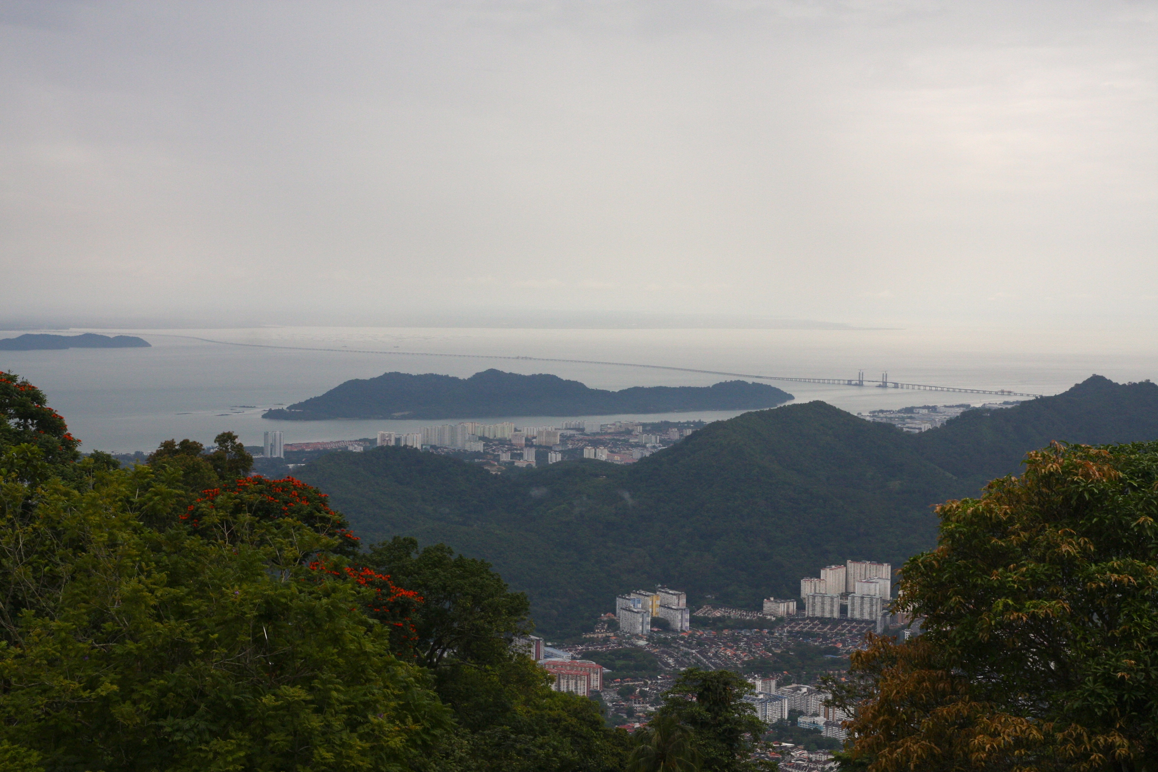 The second bridge connecting Penang with the mainland is nearly done.